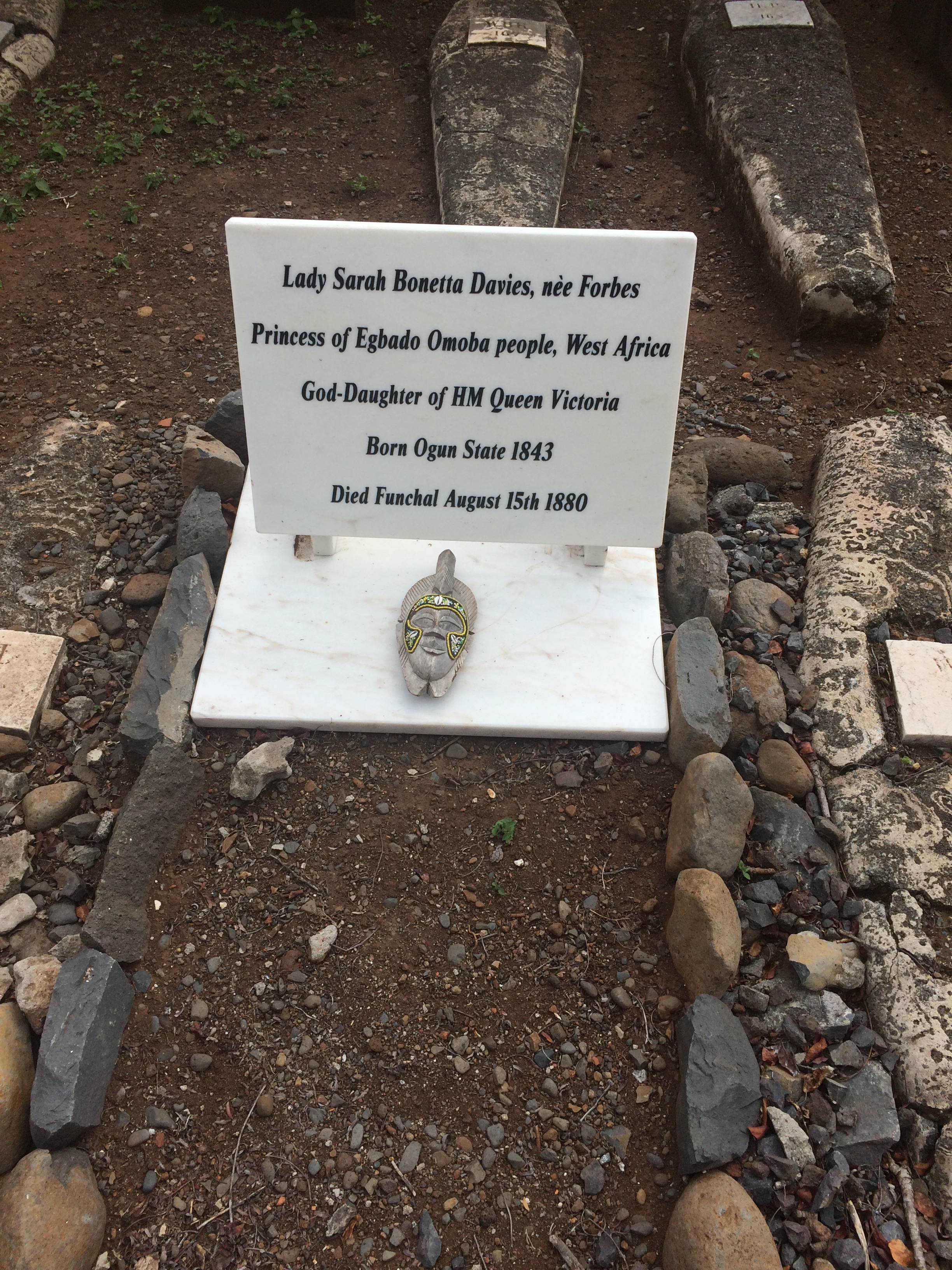 Sarah Forbes Bonettas gravestone at the Engl9sh Cemetary in Funchal, Madeira